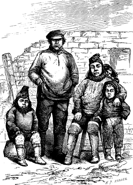 Hans Hendrik and his family